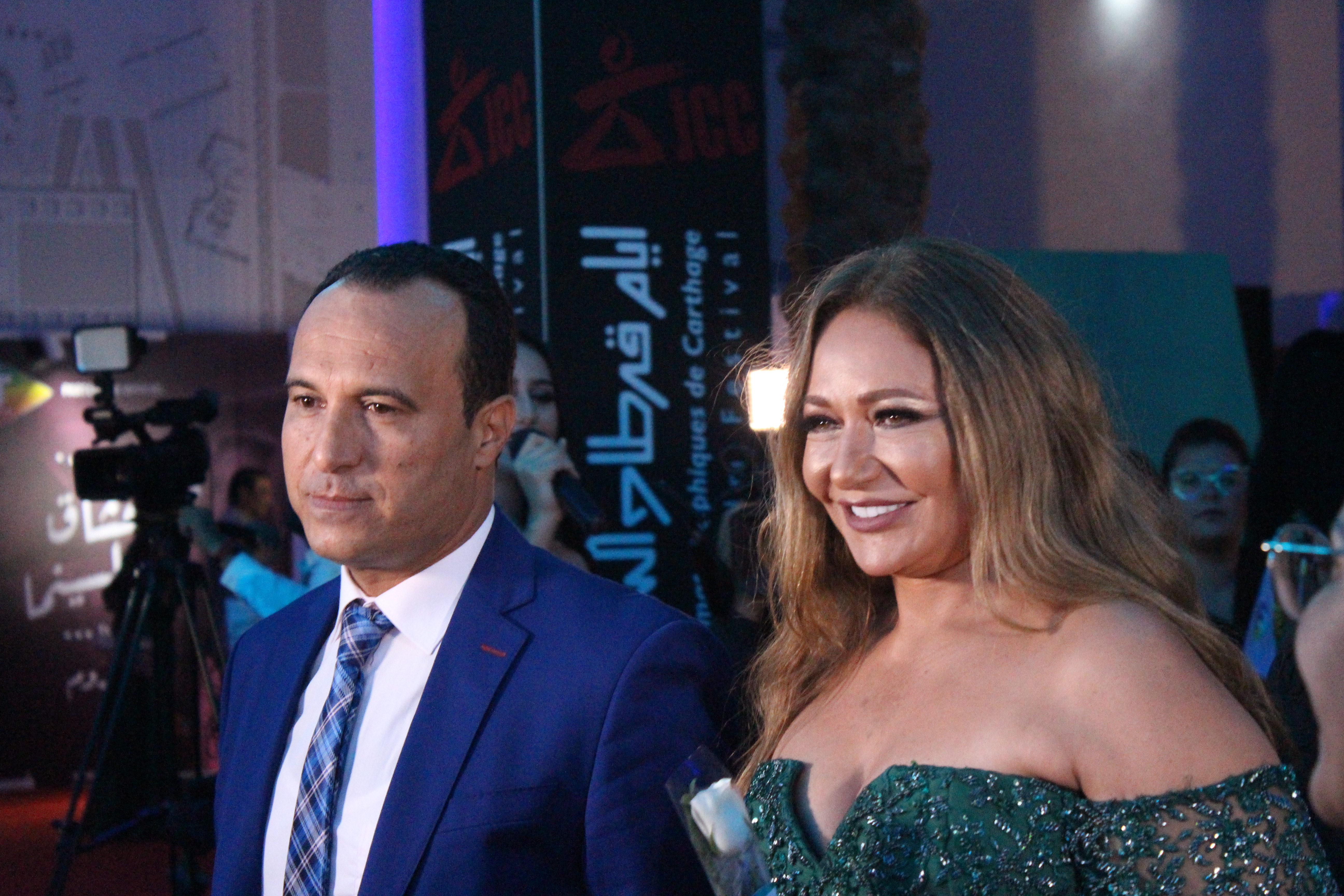 Opening ceremony of the Carthage Film Festival 2018